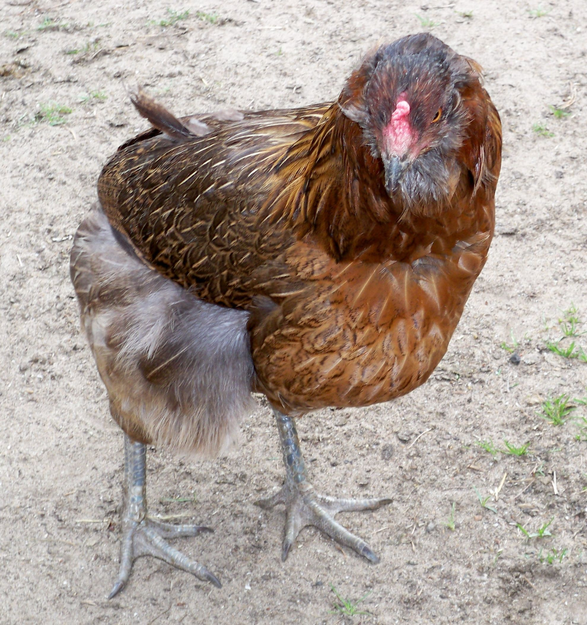 Araucana hen outside